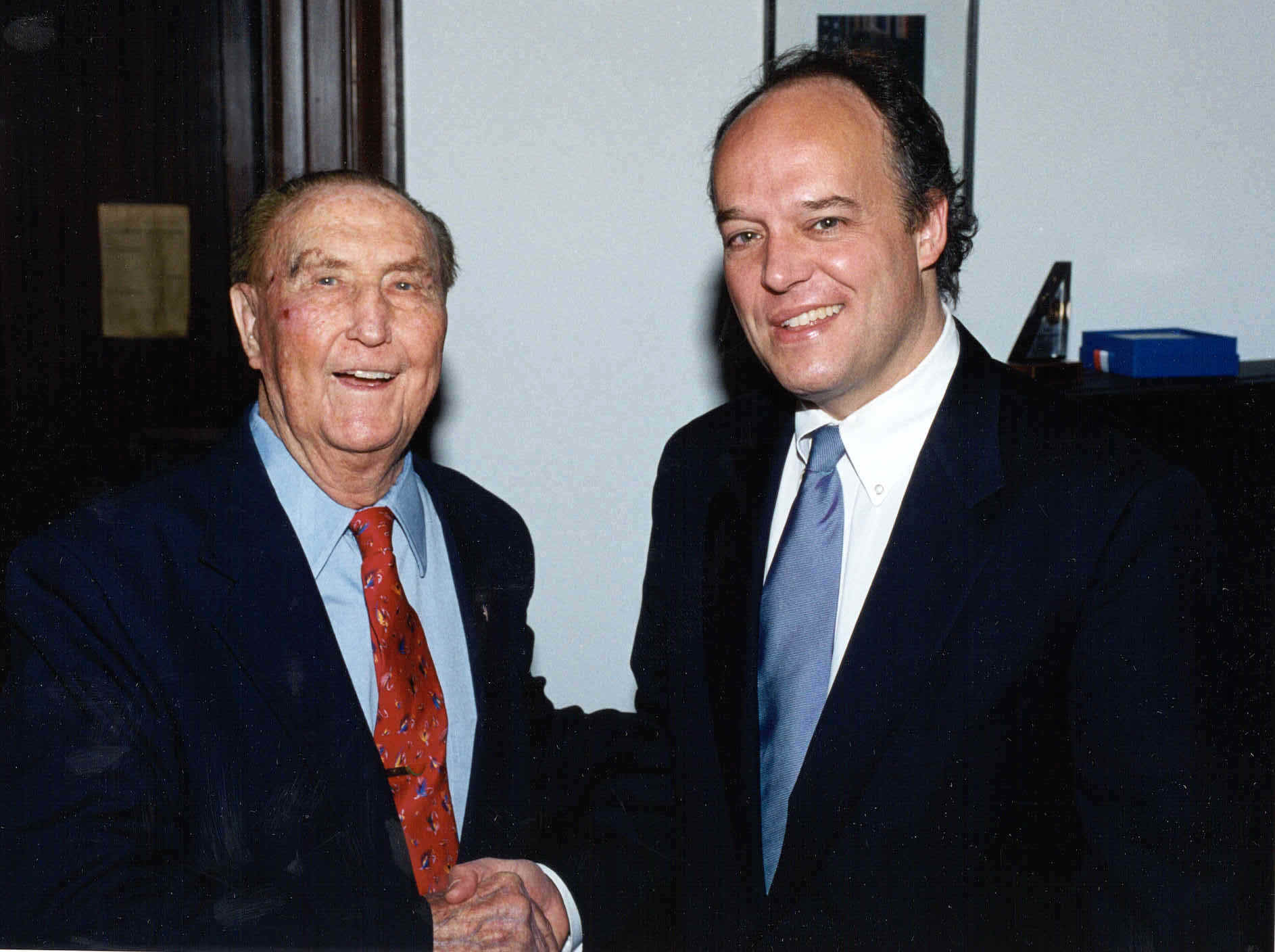 Senator Fitzgerald, the youngest member of the Senate, with Strom Thurmond, the oldest Senator